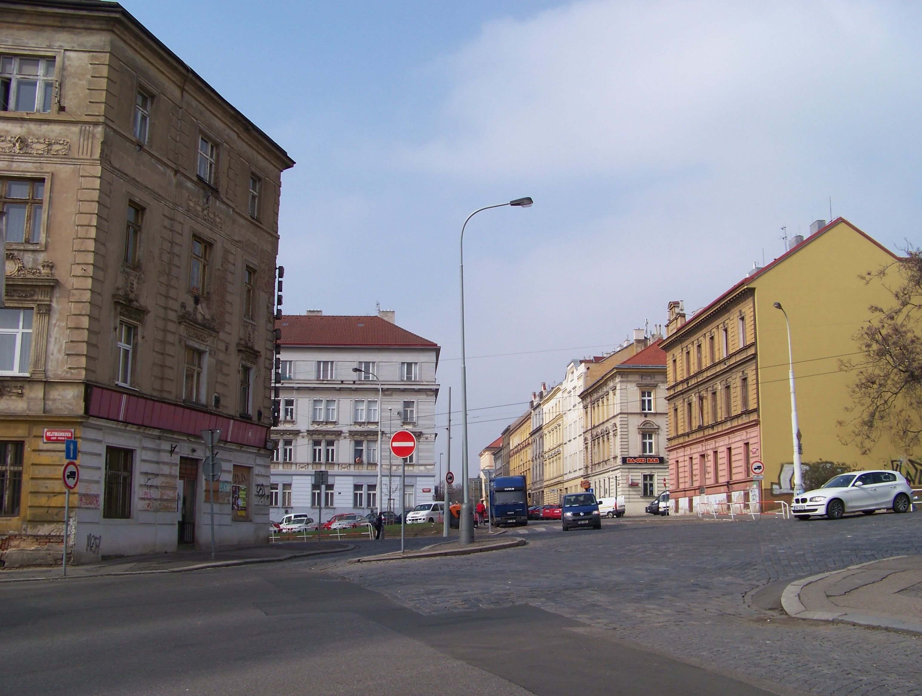 Prague-Libeň, the Czech Republic. Podlipného street, seen from Srbova street.